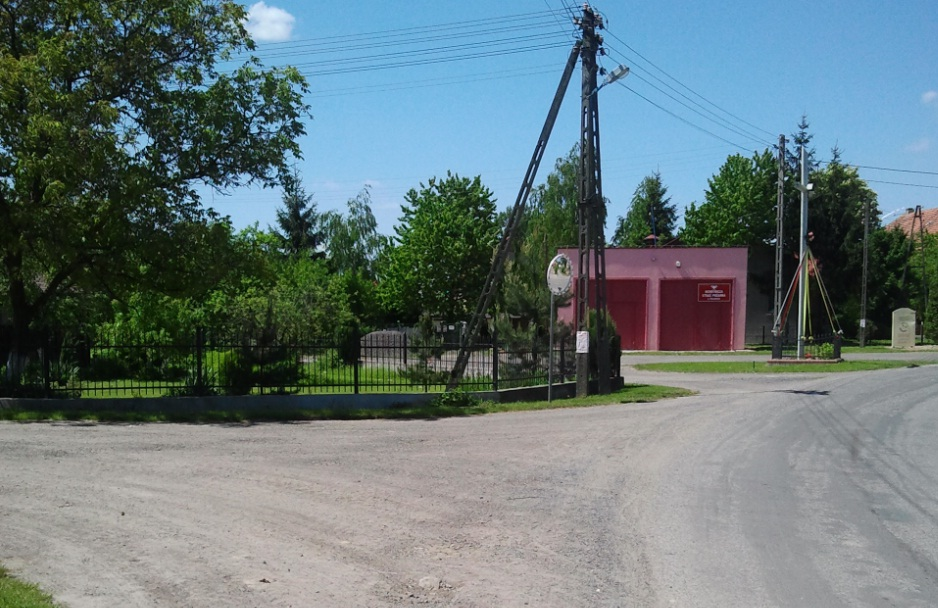 Rondo Unii Europejskiej